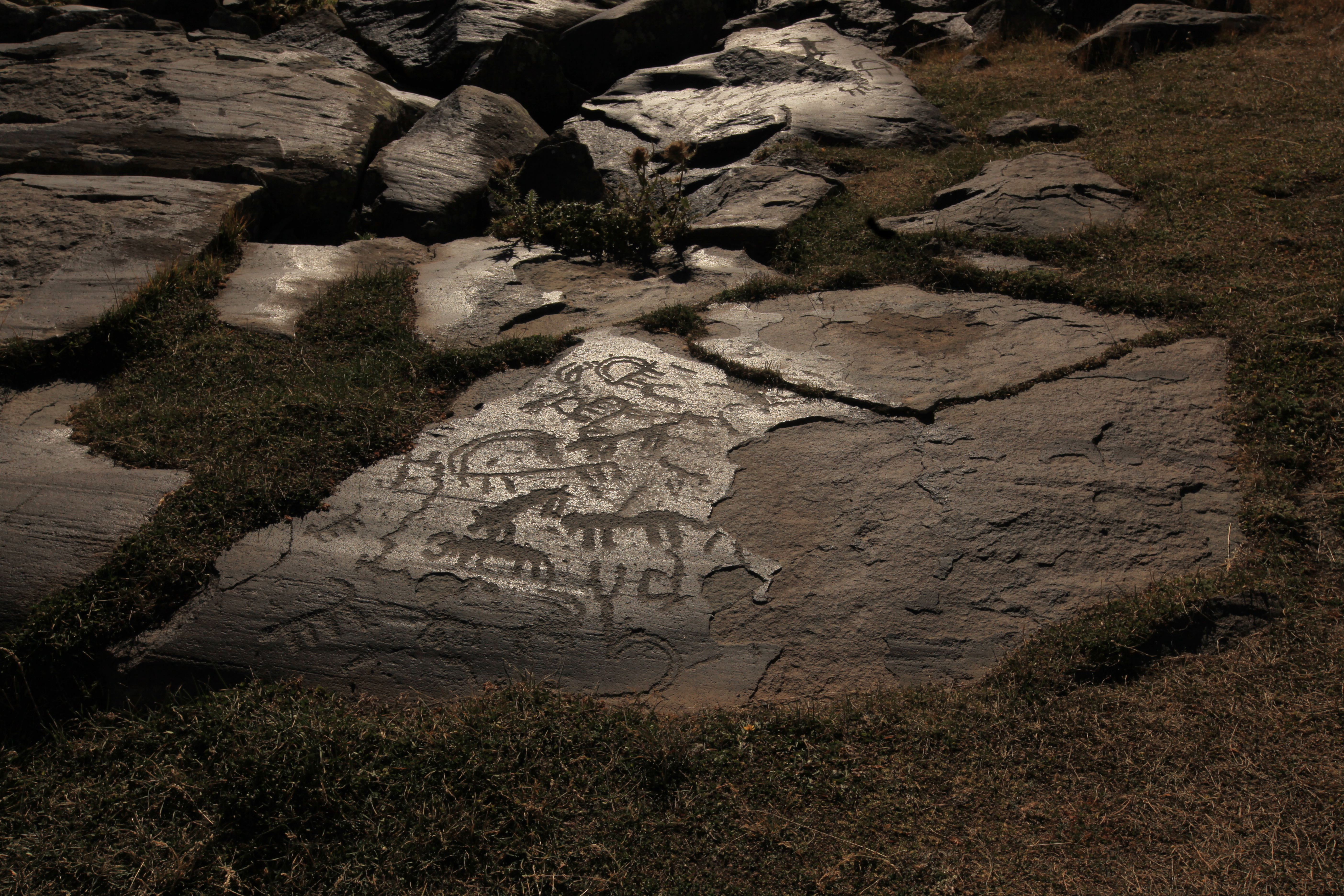 Petroglyphs in Ughtasar, near the village Sarnakunk. 2-3 millennium BC.